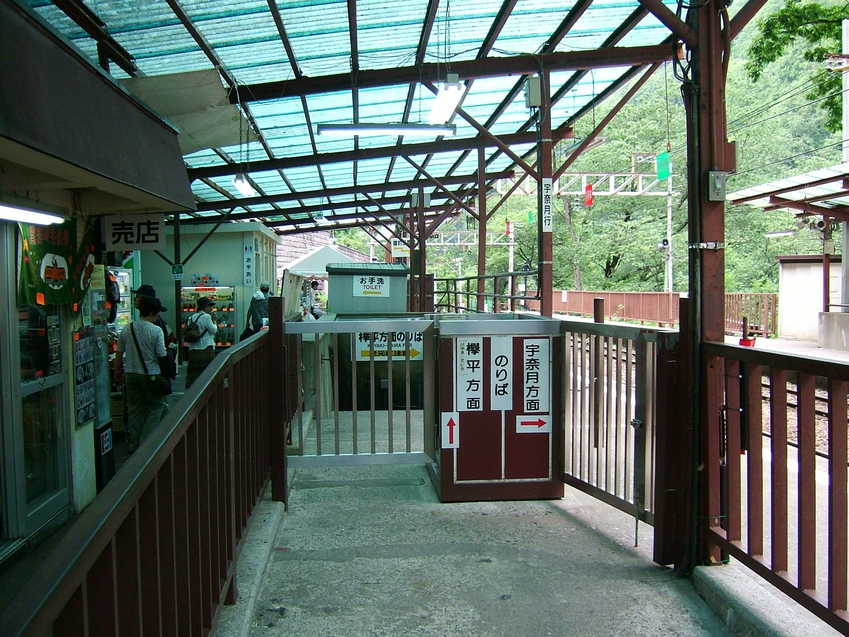 The ticket gate at Kanetsuri station on the Kurobe Gorge Railway Main line